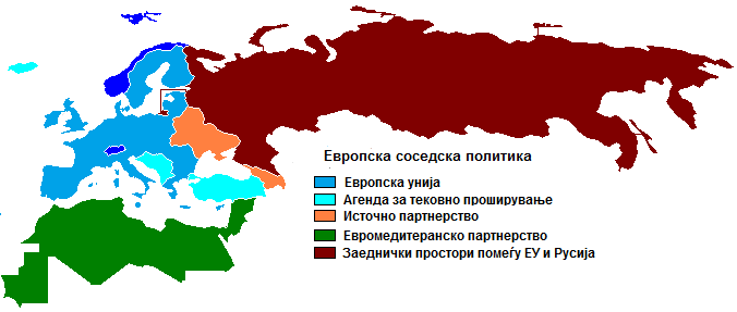 EU neighbourhood initivatives